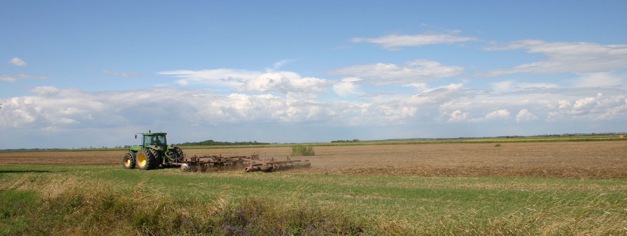 Plowing with tractor on the Great Hungarian Plain (Alföld), Hungary